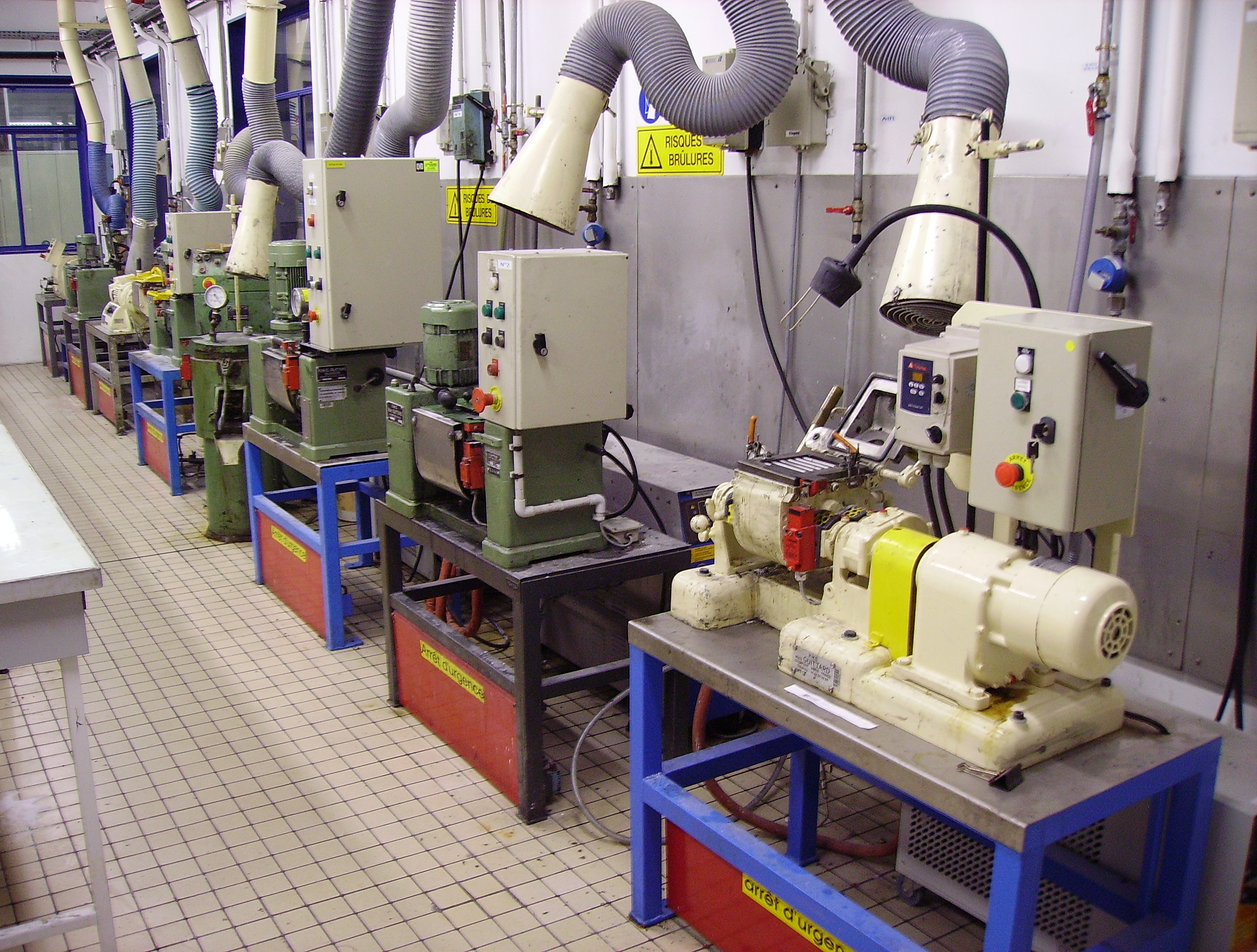 Seven "Z blade" kneaders (capacity: 1...5 liters) and one heating agitator (fourth device from the right) in a chemistry laboratory, used for the formulation of polymer products: sealants/adhesives based on PVC (plastisols), elastomer, epoxy, wax, bitumen, etc.